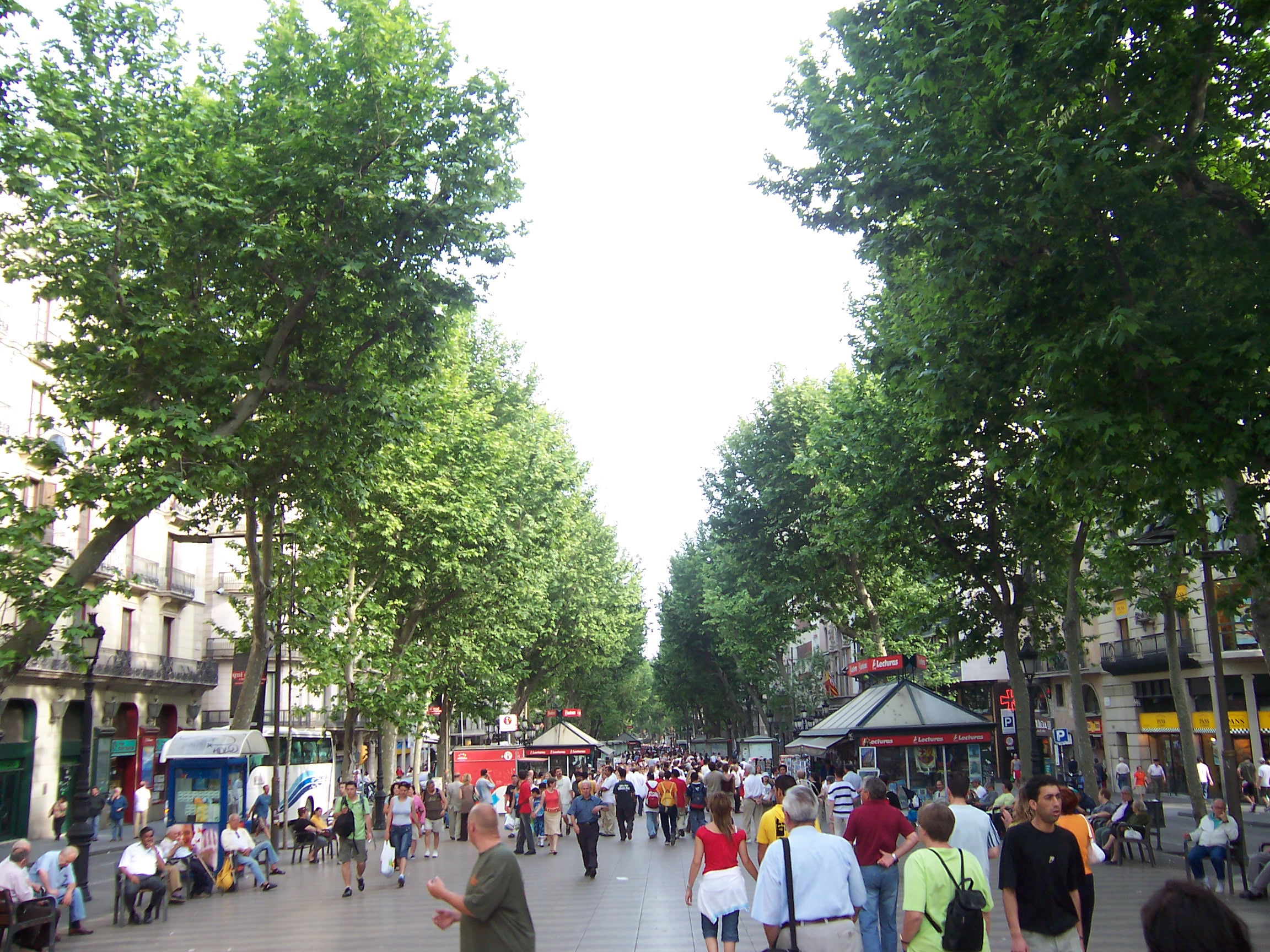 Les Rambles (The Avenues), in Barcelona.